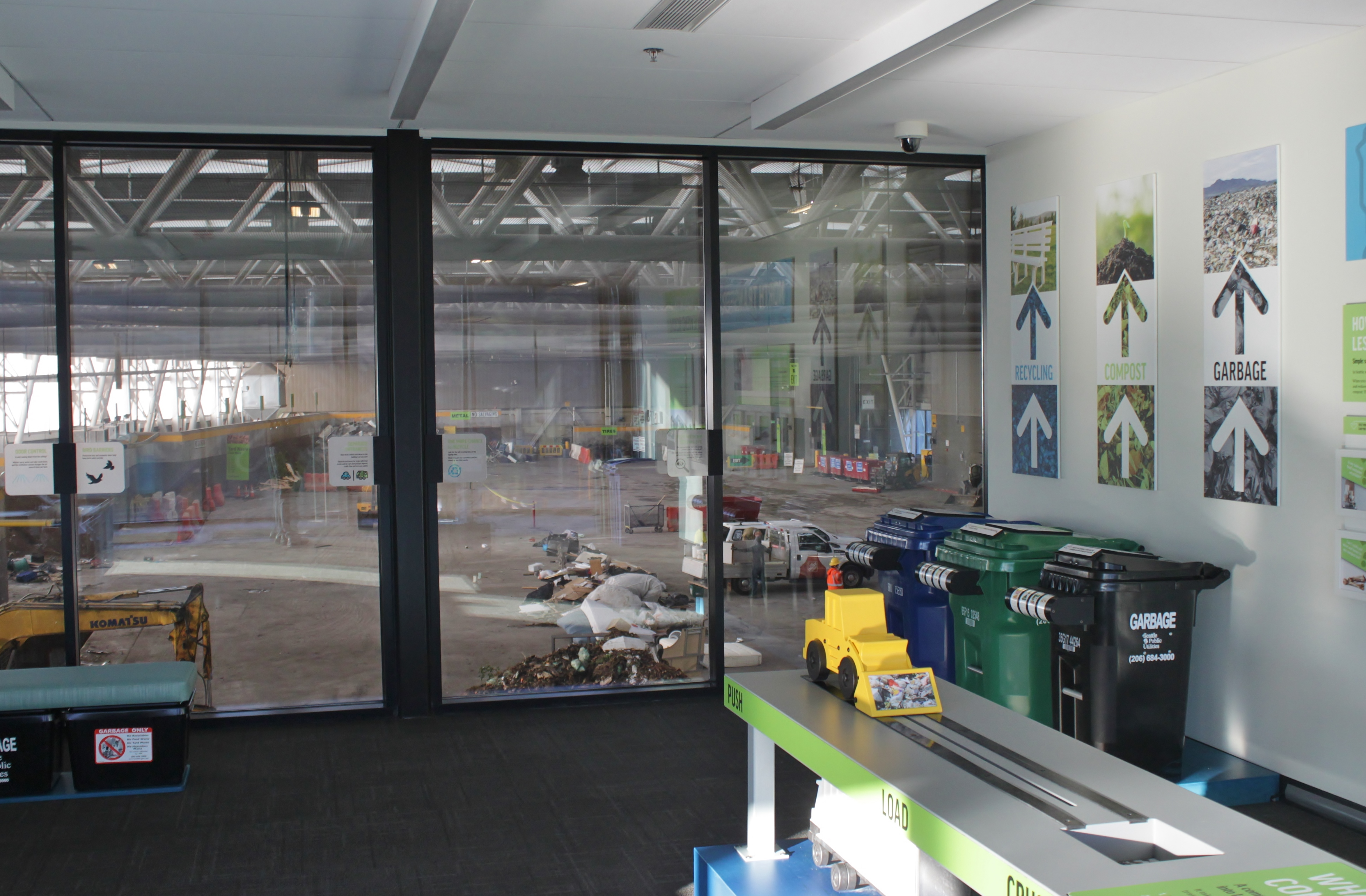 The viewing room and learning center at the North Transfer Station in Seattle, a waste transfer facility.